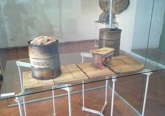 Collection of the Museum of Ceramics of Cuba Title: Bank of Patience Material: ceramics